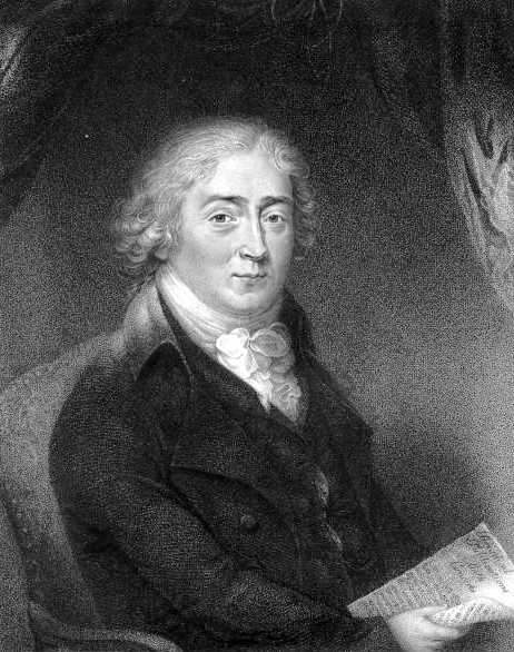 Italian opera singer and composer Venanzio Rauzzini (1746-1810). Stipple engraving by Robert Hancock (1730-1817) after Joseph Hutchison ((1747-1830).